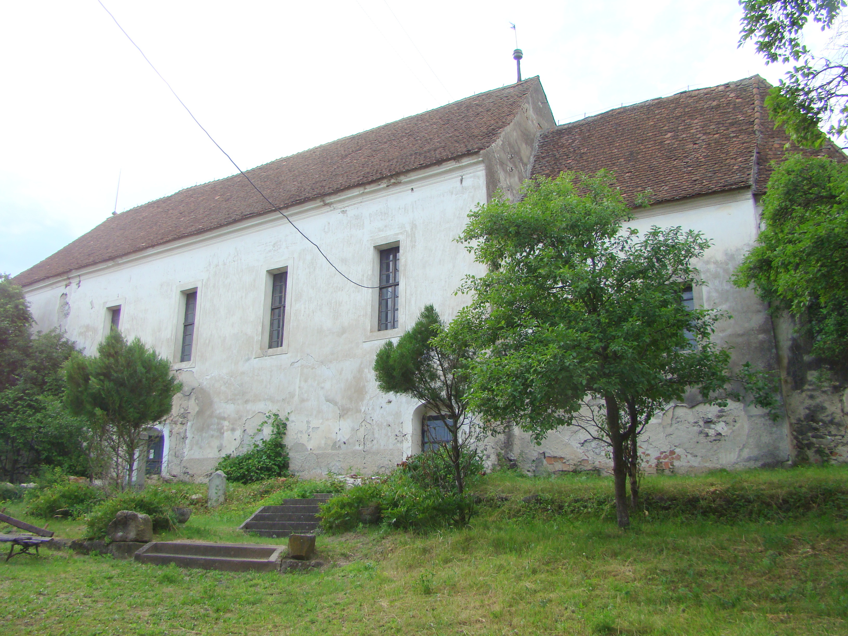 Fortified church in Ungra, Braşov County, Romania